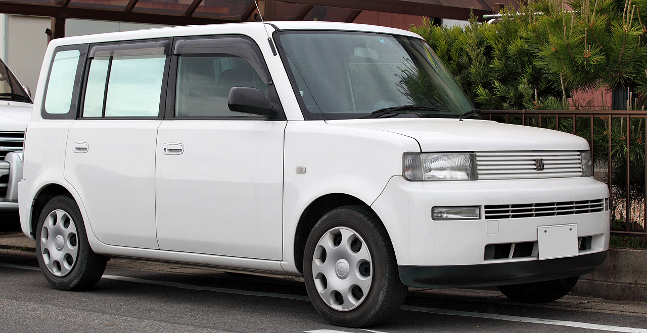 Toyota bB ( CP30 series )